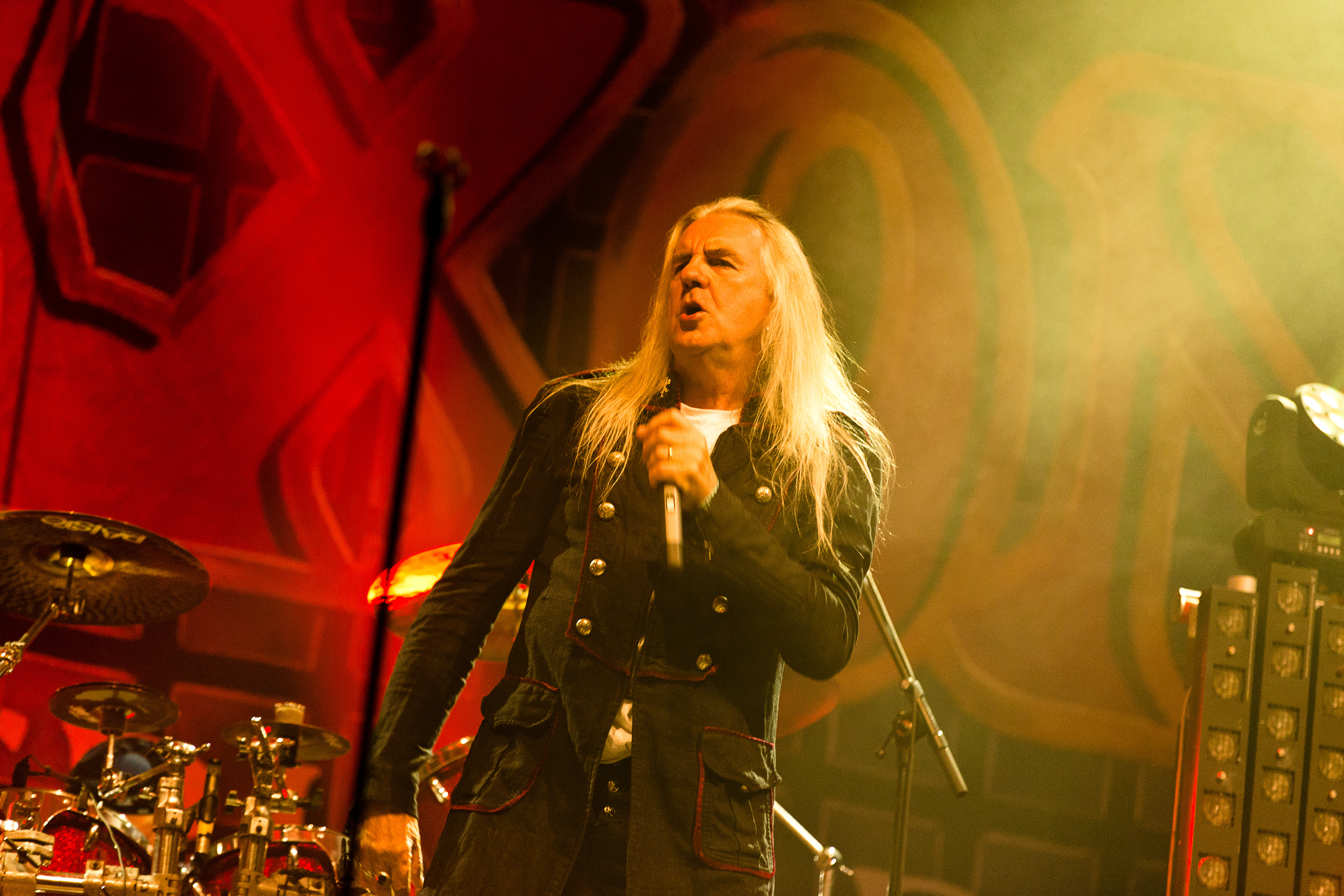 The English heavy metal band Saxon at the Rockharz Open Air 2016 in Ballenstedt/Germany.